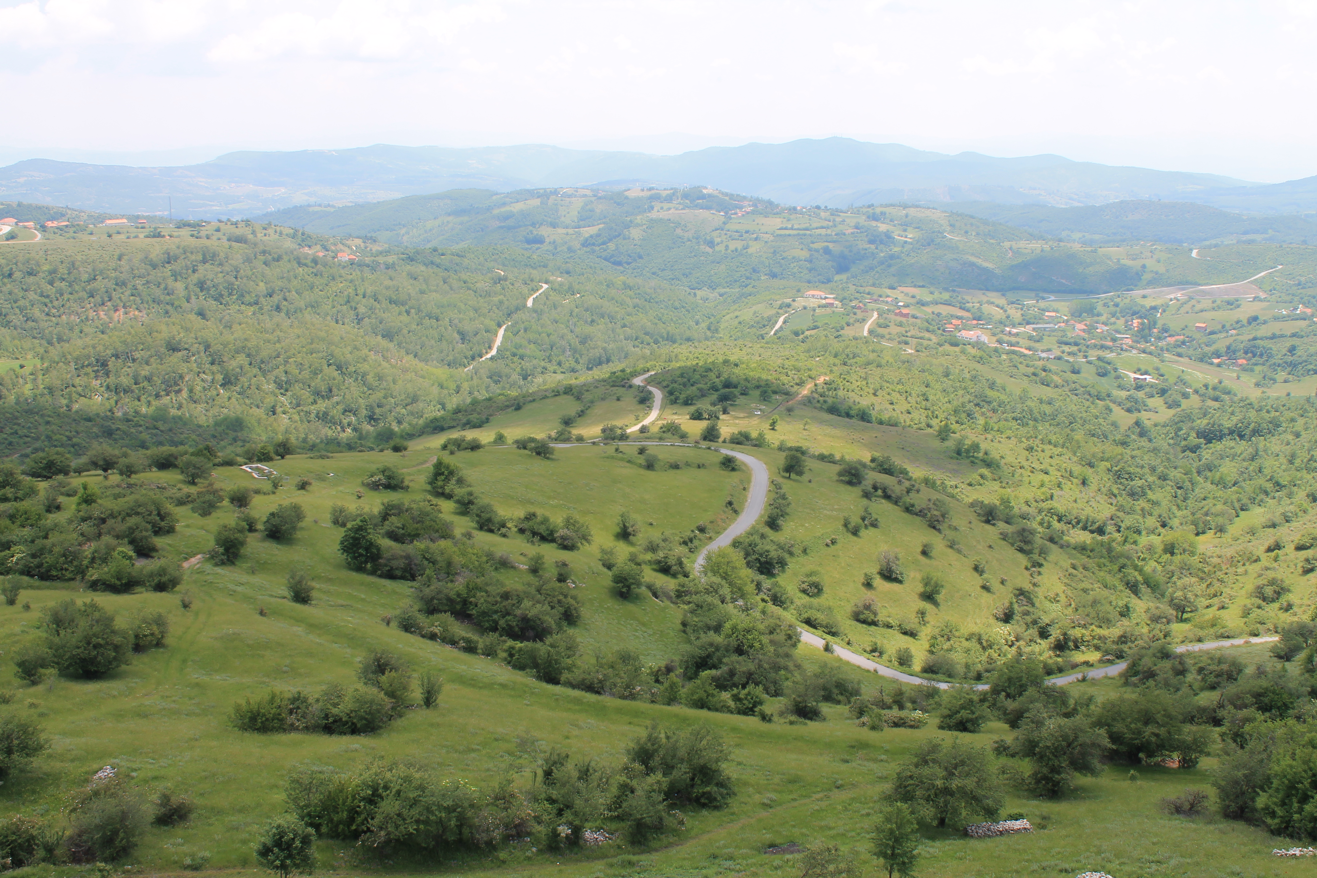 Pamje nga Kalaja e Novobërdës 2